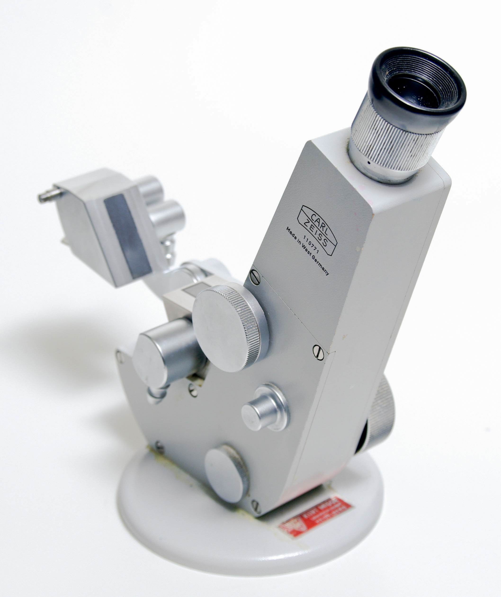 A refractometer-Zeiss